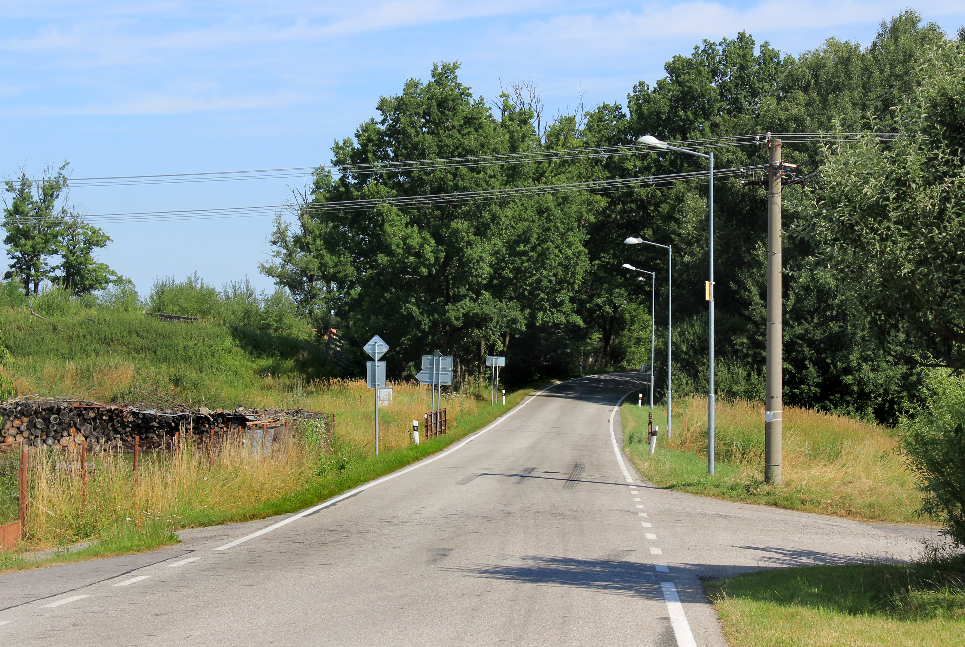 Road No 154 in Lipnice, part of Jílovice, Czech Republic.